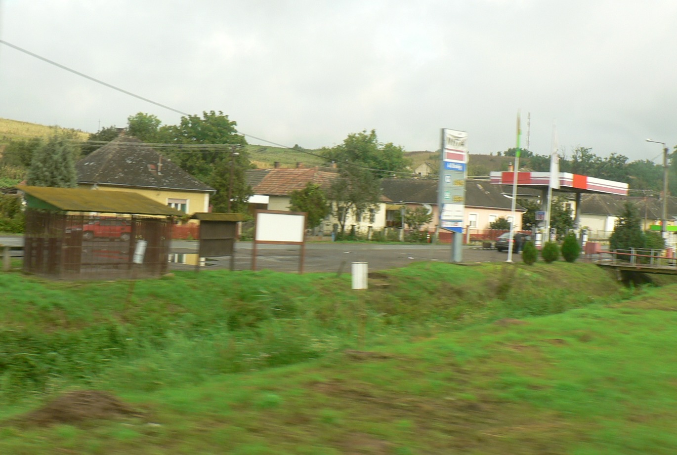 Nádújfalu településrészlete a 23-as főút mátraszelei elágazásánál